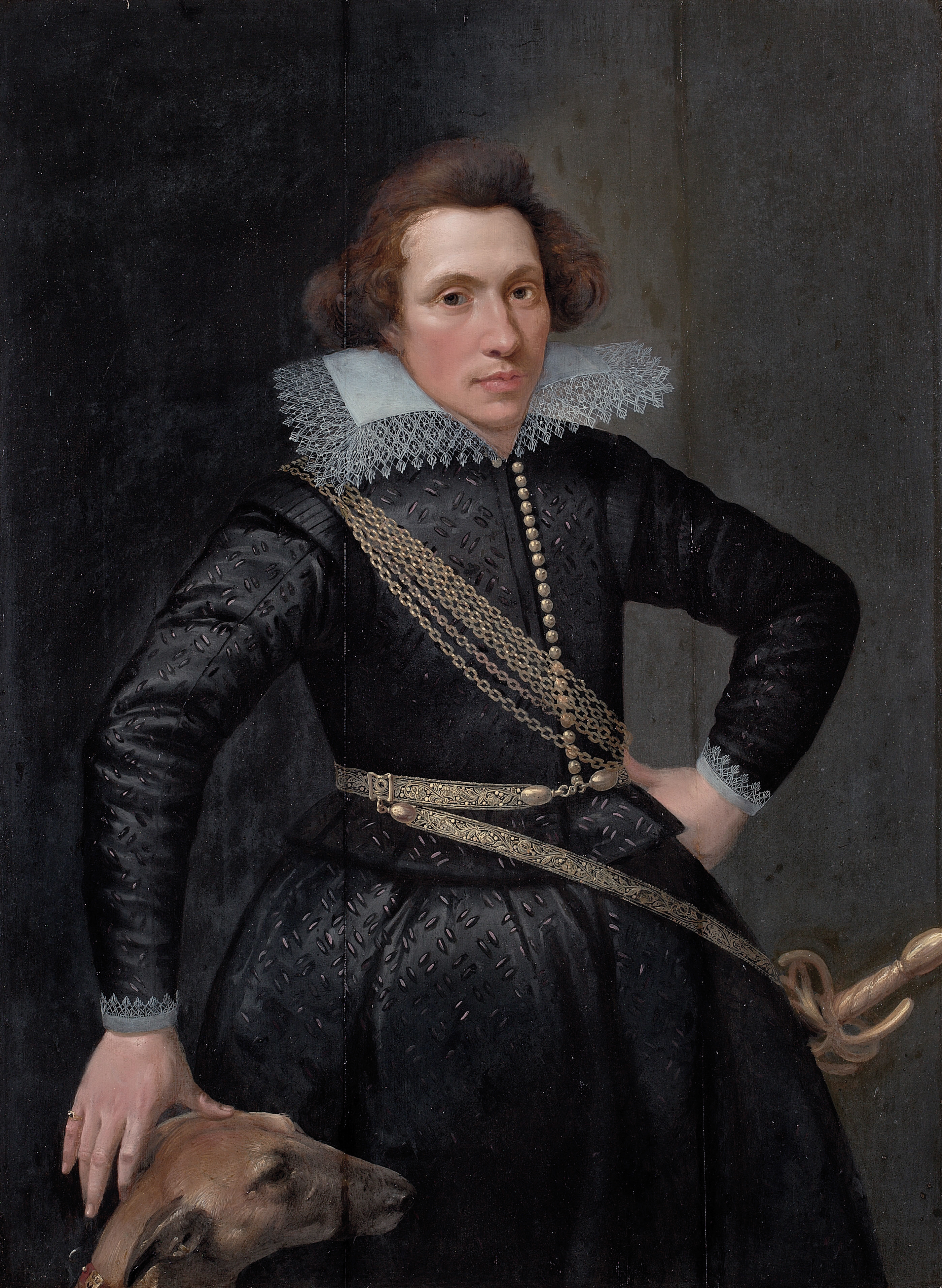 Johan van Wassenaer van Duvenvoirde (1576-1645) oil on panel 110 x 80 cm signed t.l. 1608